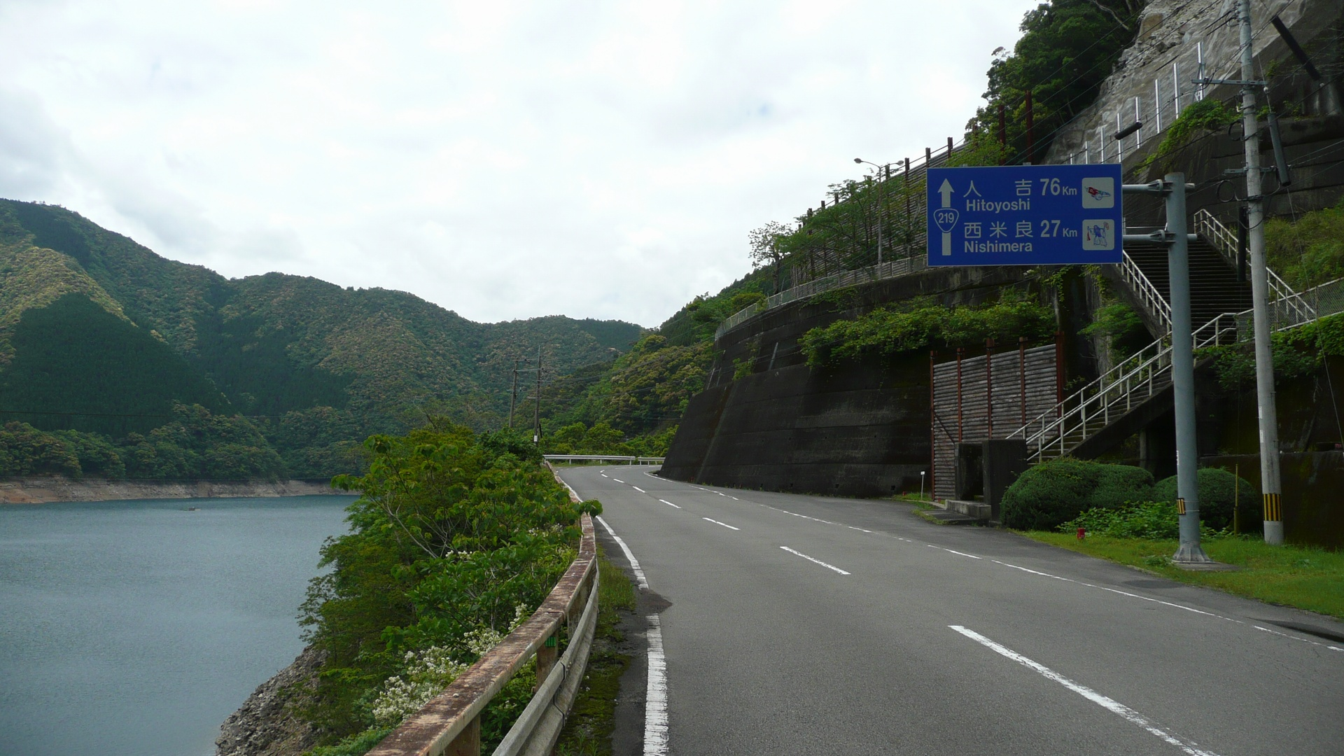 National Route 219 (Japan) - Hitotsuse Dam